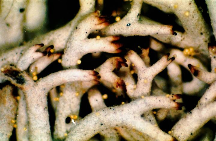 Cladonia rangiferina (L.) F.H. Wigg., 1780 (photograph of a herbarium specimen taken through a dissecting microscope (x40) showing tips of podetia) Growing on soil at summit of Spruce Knob, altitude 4,862 feet (near Circleville), Monongahela National Forest, Pendleton County, West Virginia, USA; collected by Dave Lee, identified by Arnold Norden (No. L-105, 9 Sep 1973); specimen is now in the Lichen Herbarium of the New York Botanical Garden.